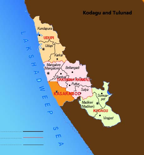 Proposed union territory of Kodava and Tuluva Naad